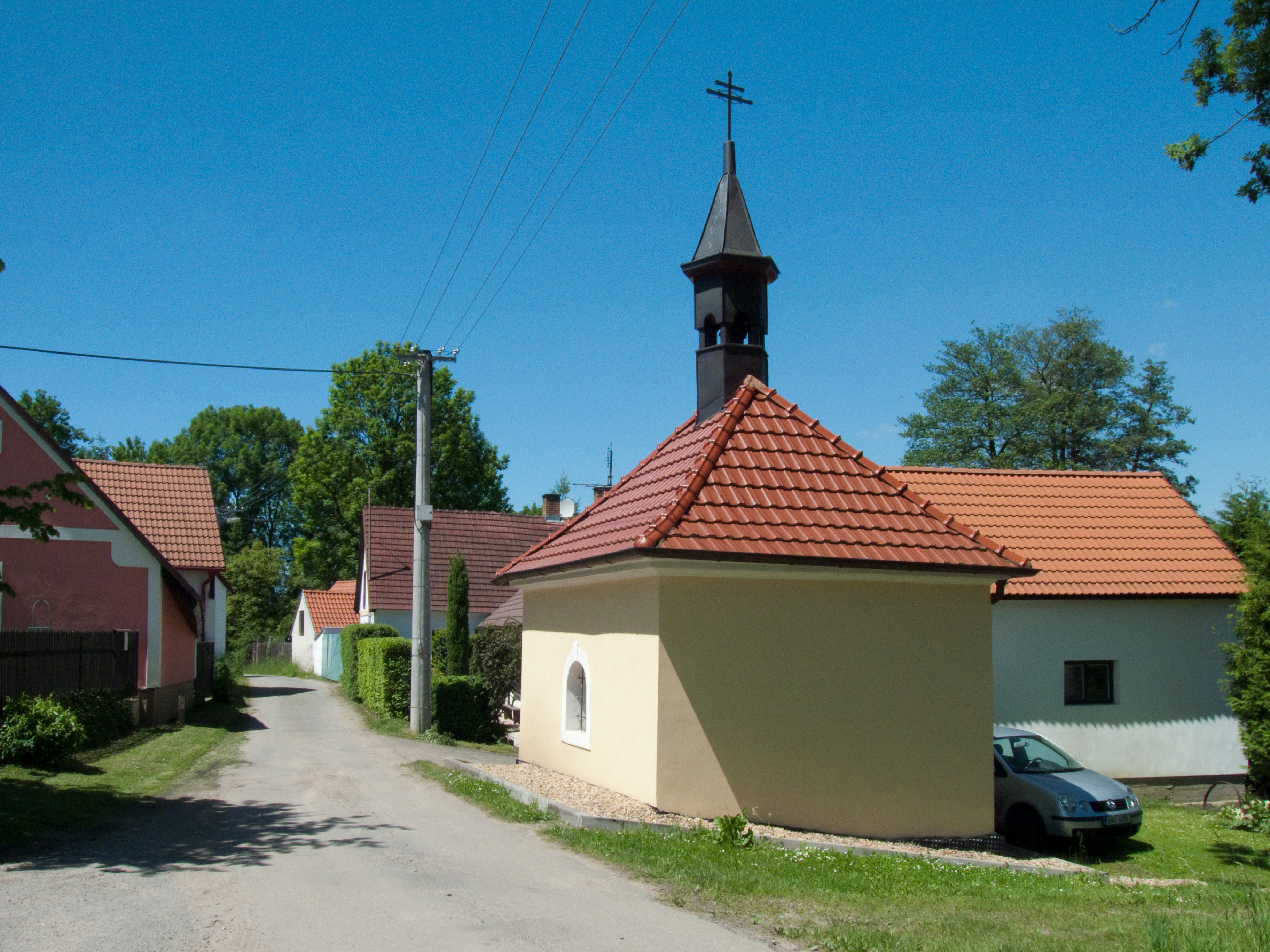 Chapel in the village of Hrušova Lhota, Tábor district, Czech Republic